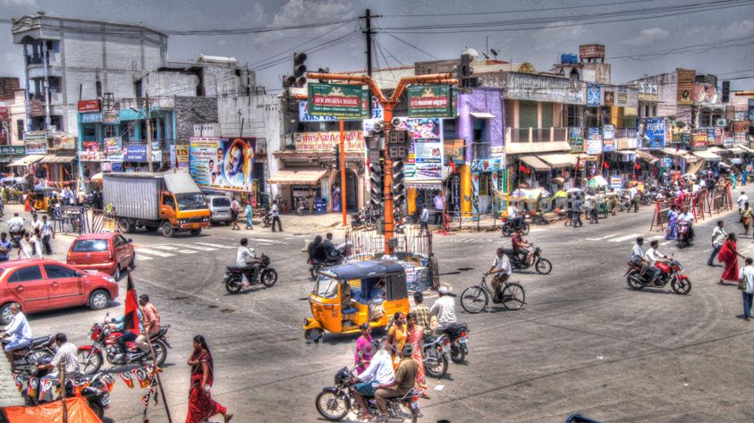 Krishnagiri Rountana